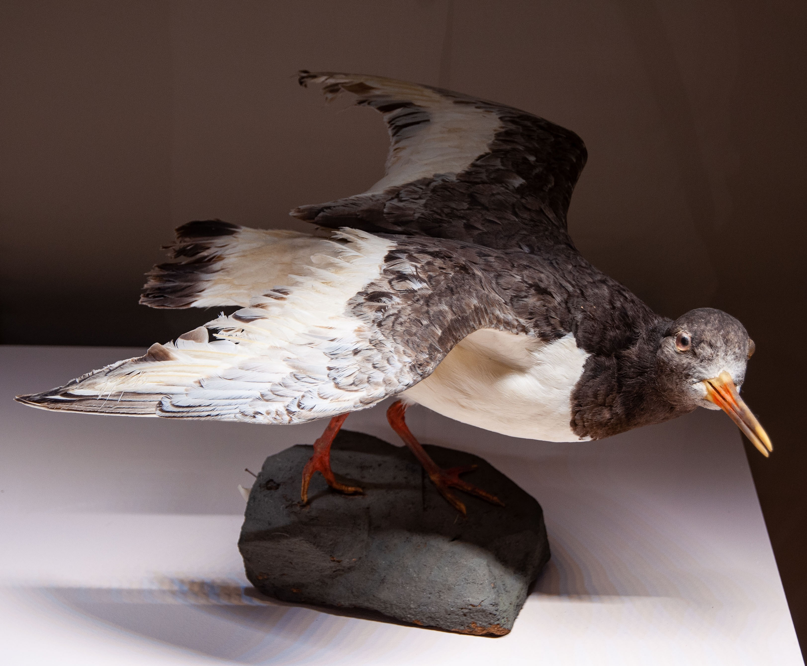 Naturalised oystercatcher-pie, exhibited in the Whale Room of the Oceanographic Museum of Monaco.